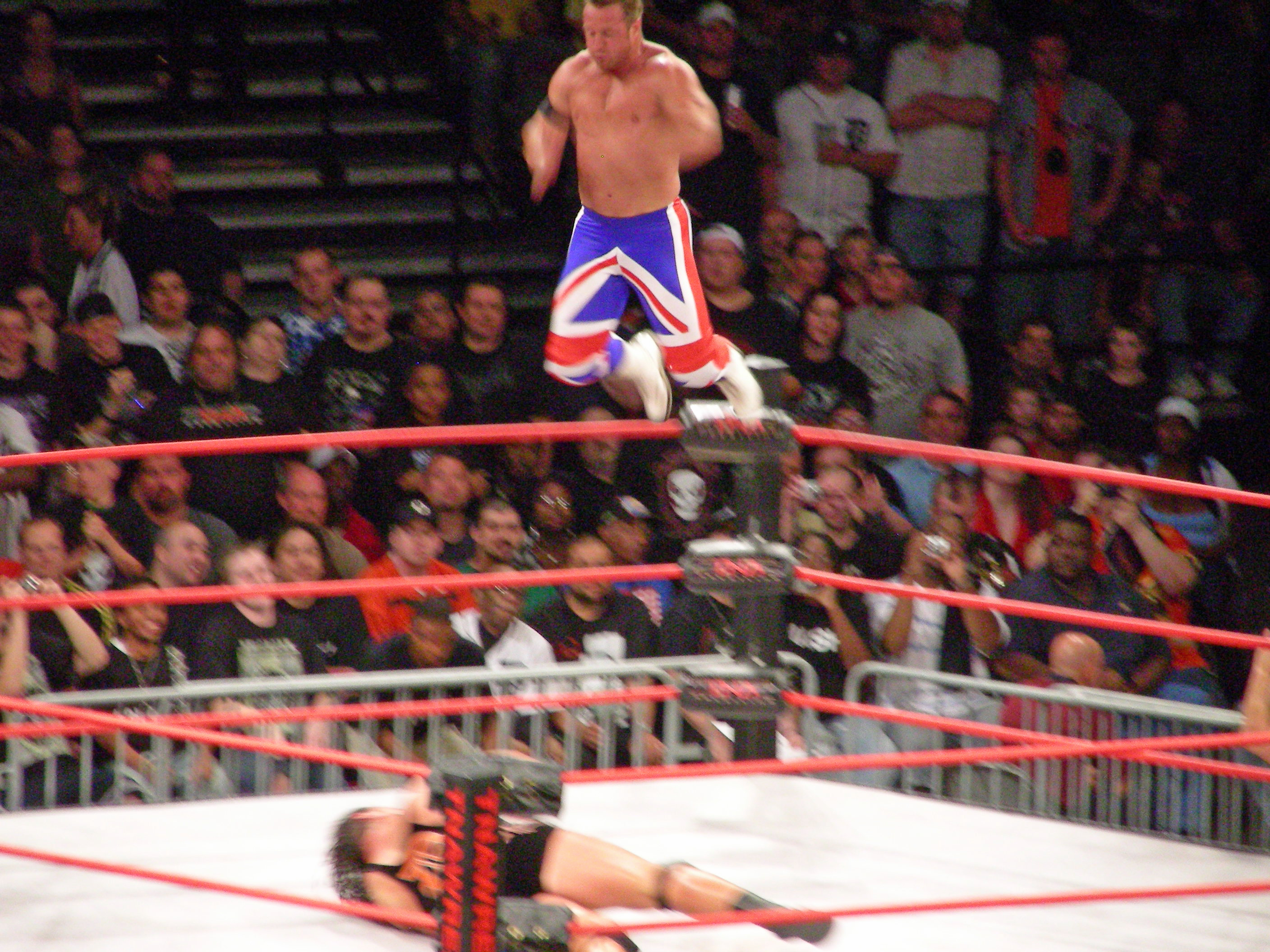 Douglas Williams performing Bombs Away! on the War Machine winner via pin The British Invasion